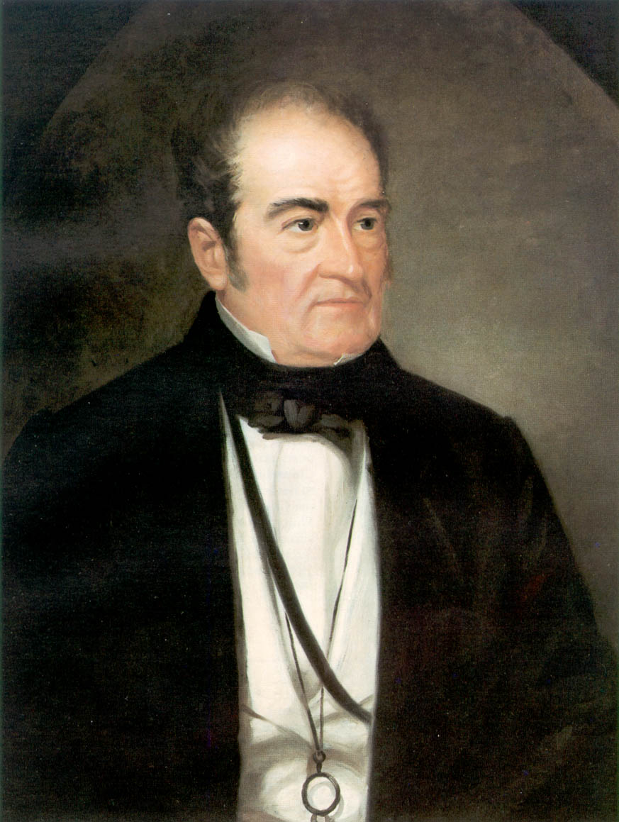 John Bell (1797–1869), 16th United States Secretary of War.